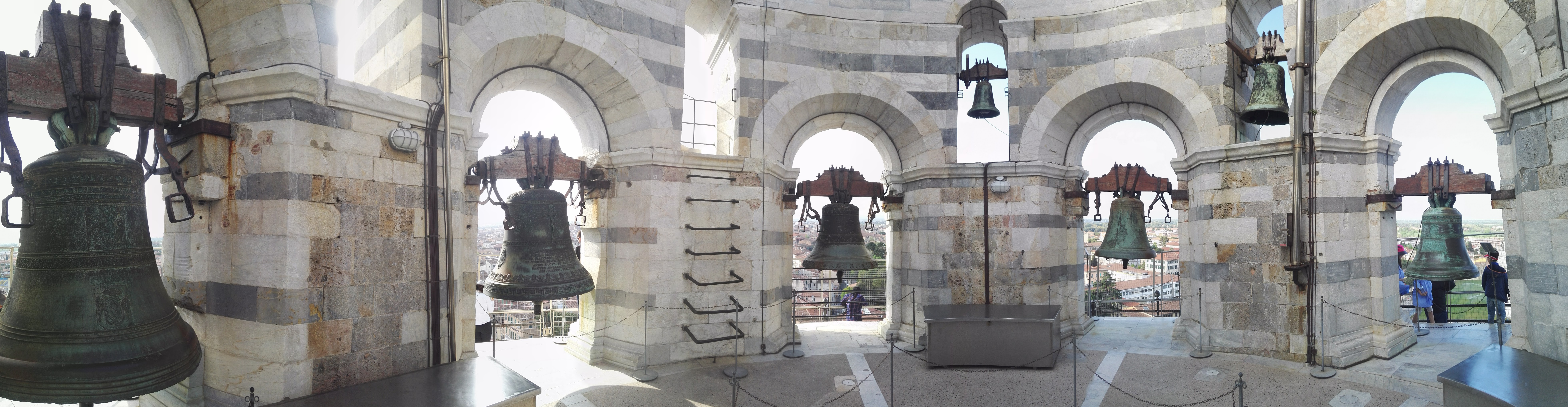 Bells of the Leaning Tower of Pisa. From left to right: Assunta Crocifisso San Ranieri Vespruccio (above) Pasquereccia Terza (above) Dal Pozzo